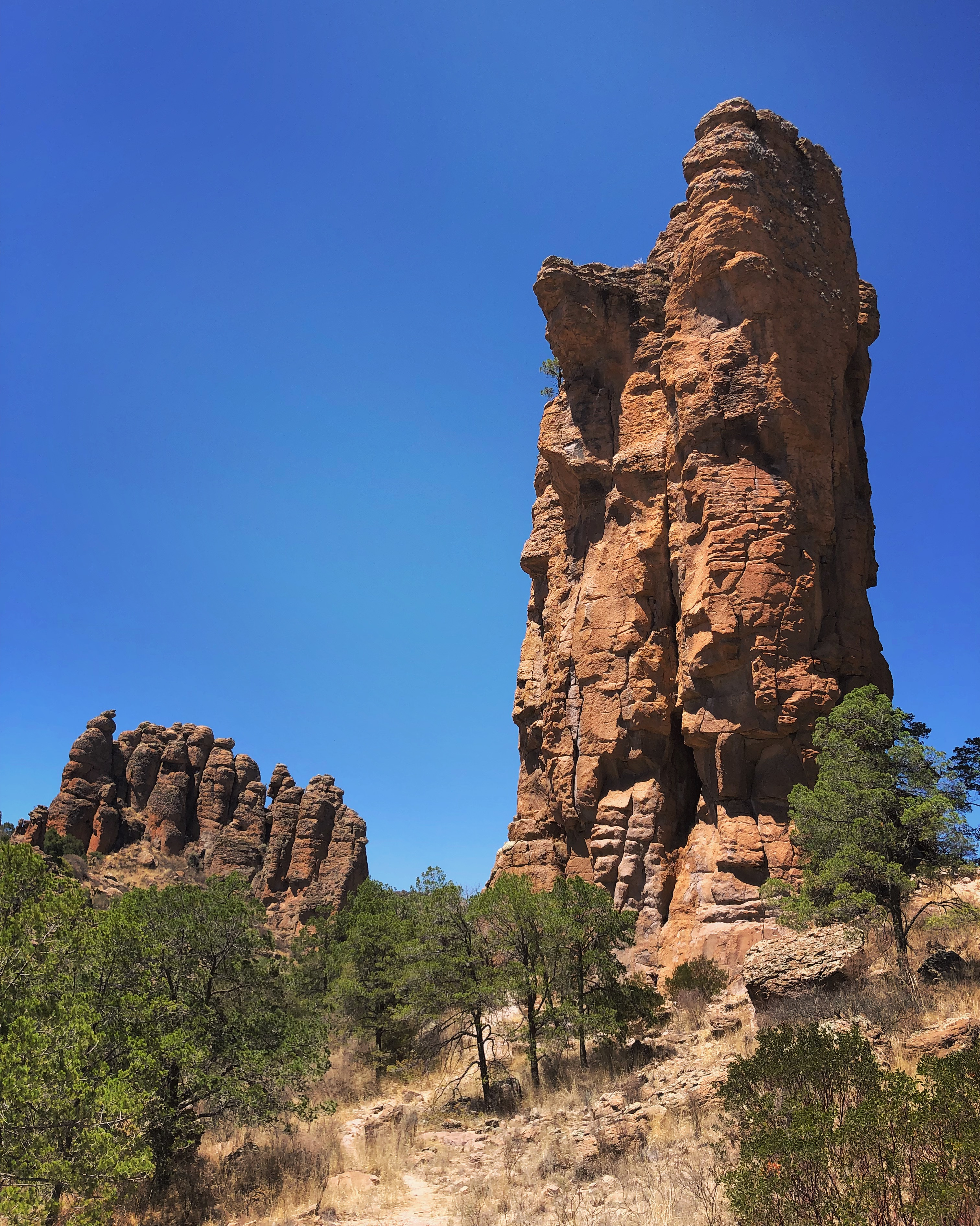 Sierra de Organos National Park